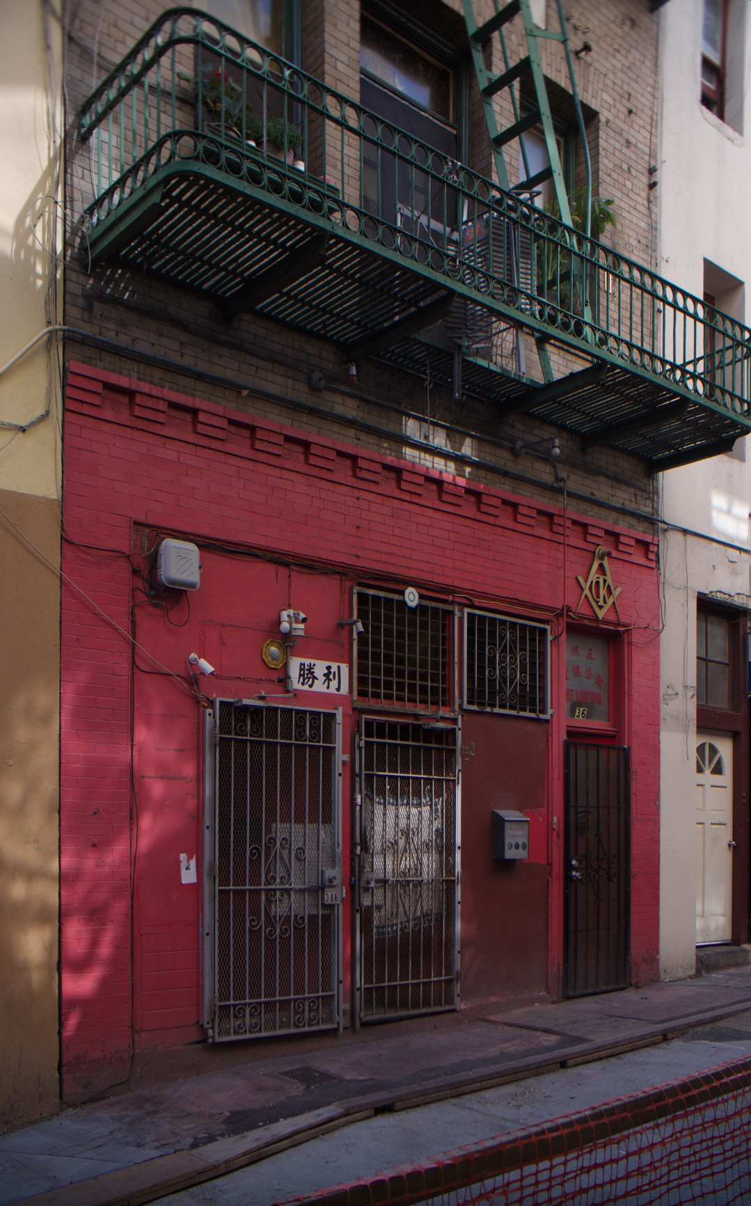 aka the Chinese Free Masons.